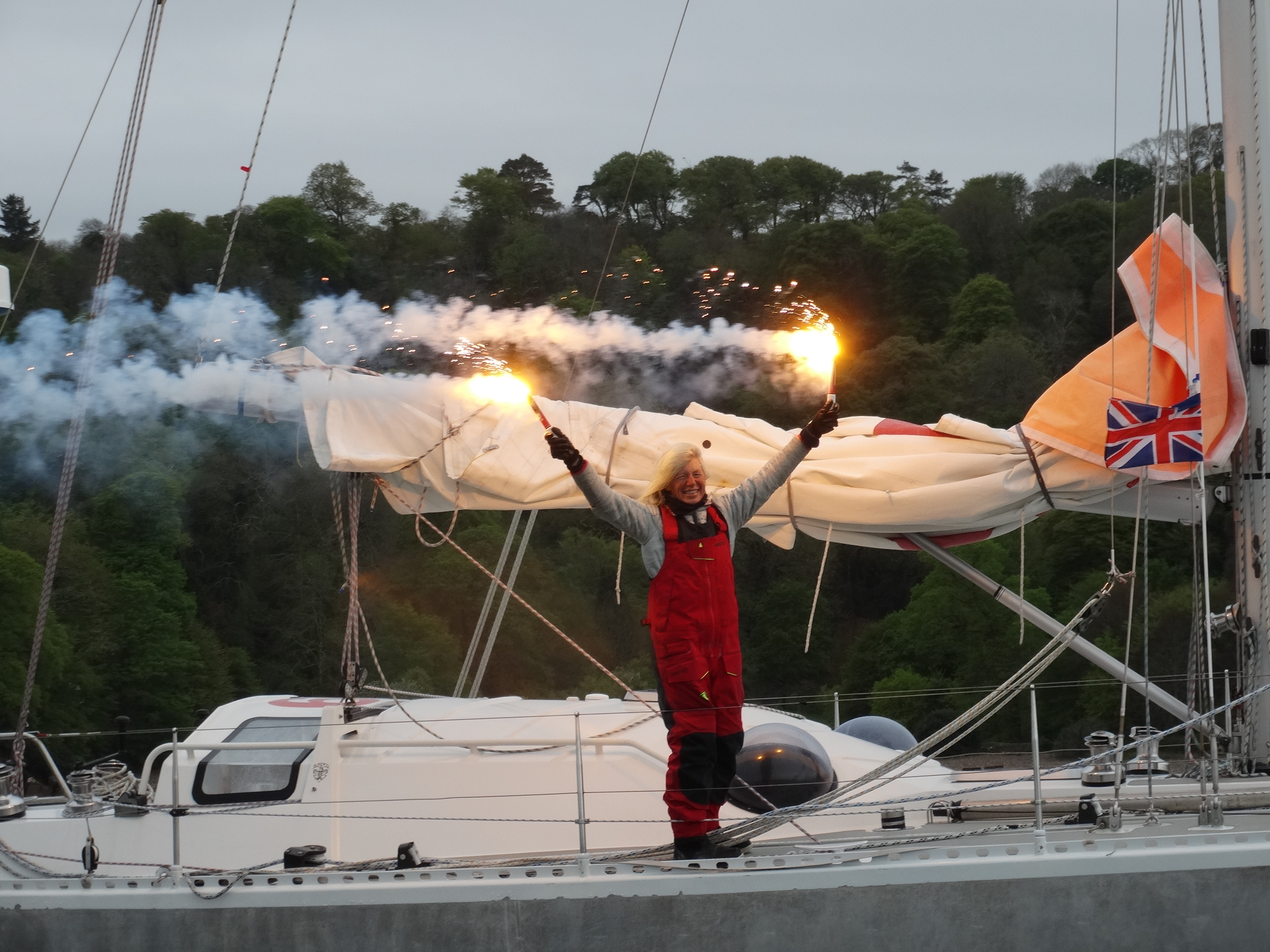 Kpt. Asia Pajkowska kończy w Plymouth samotny bez zawijania do portów rejs dookoła świata